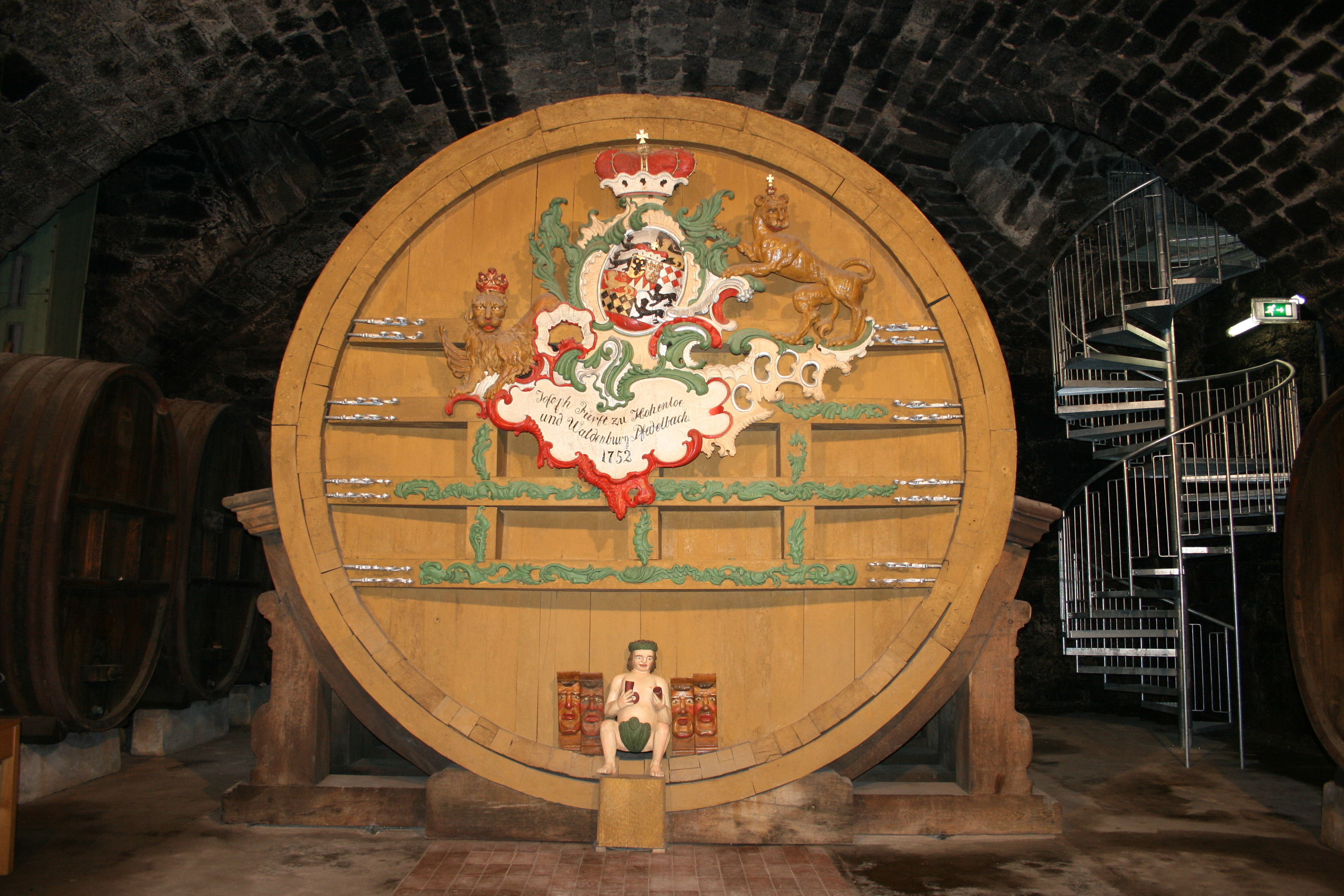 The fourth-largest wine cask in South-Germany in the viniculture {viticulture} museum in Pfedelbach. capacity 64,664 l from the year 1752